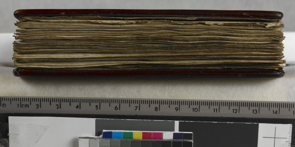 Unspecified; Caption: Fore edge; Colour: Unspecified; Edge: Unspecified